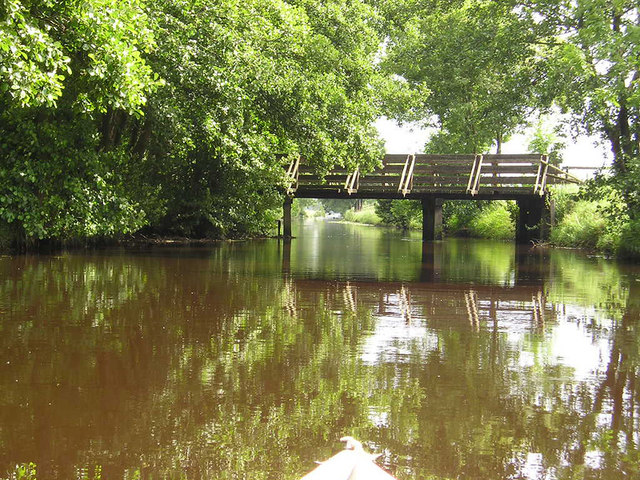 Emmelke (river)